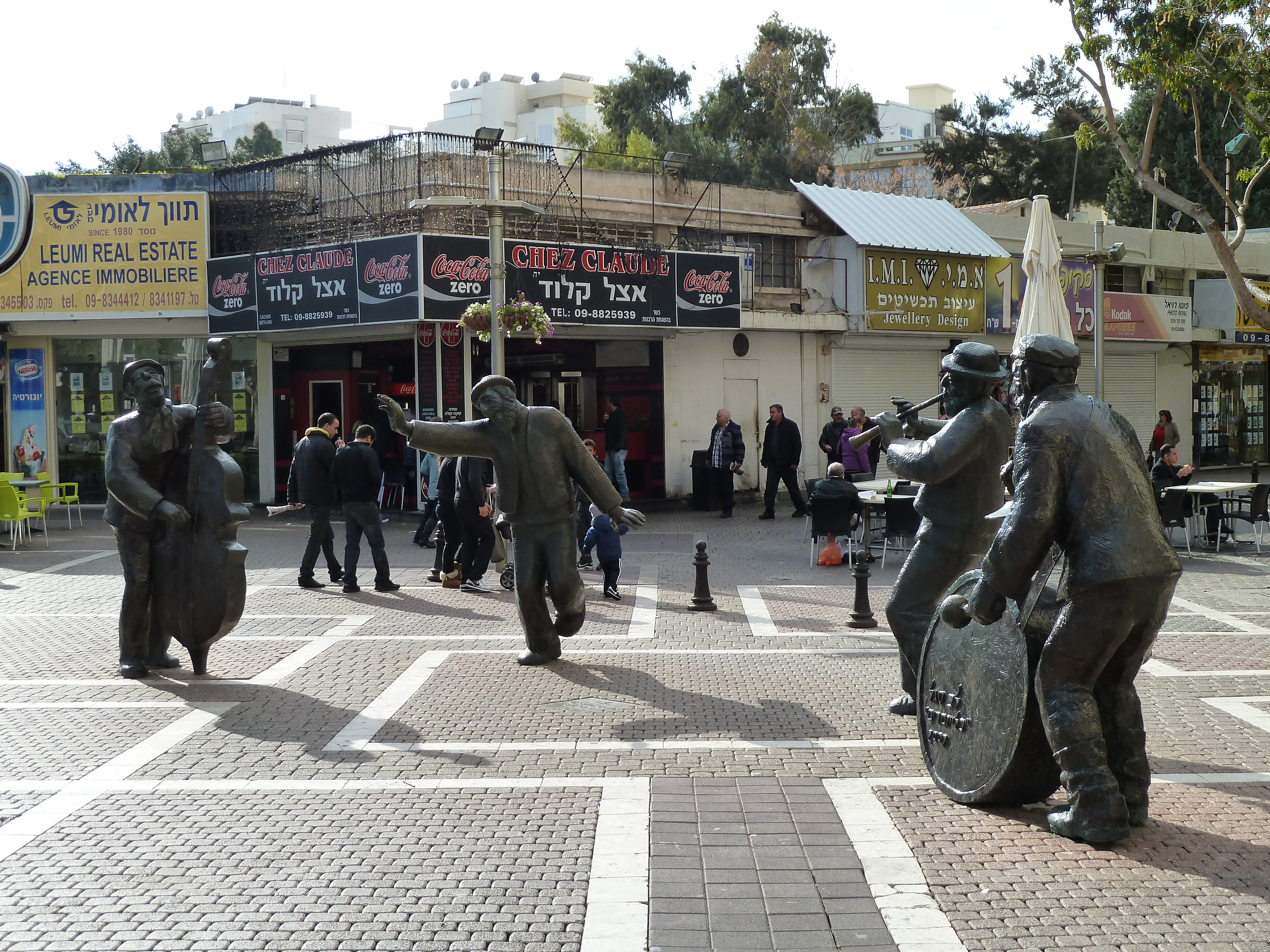 The Klezmers, a statue by Lev Segal, Netanya